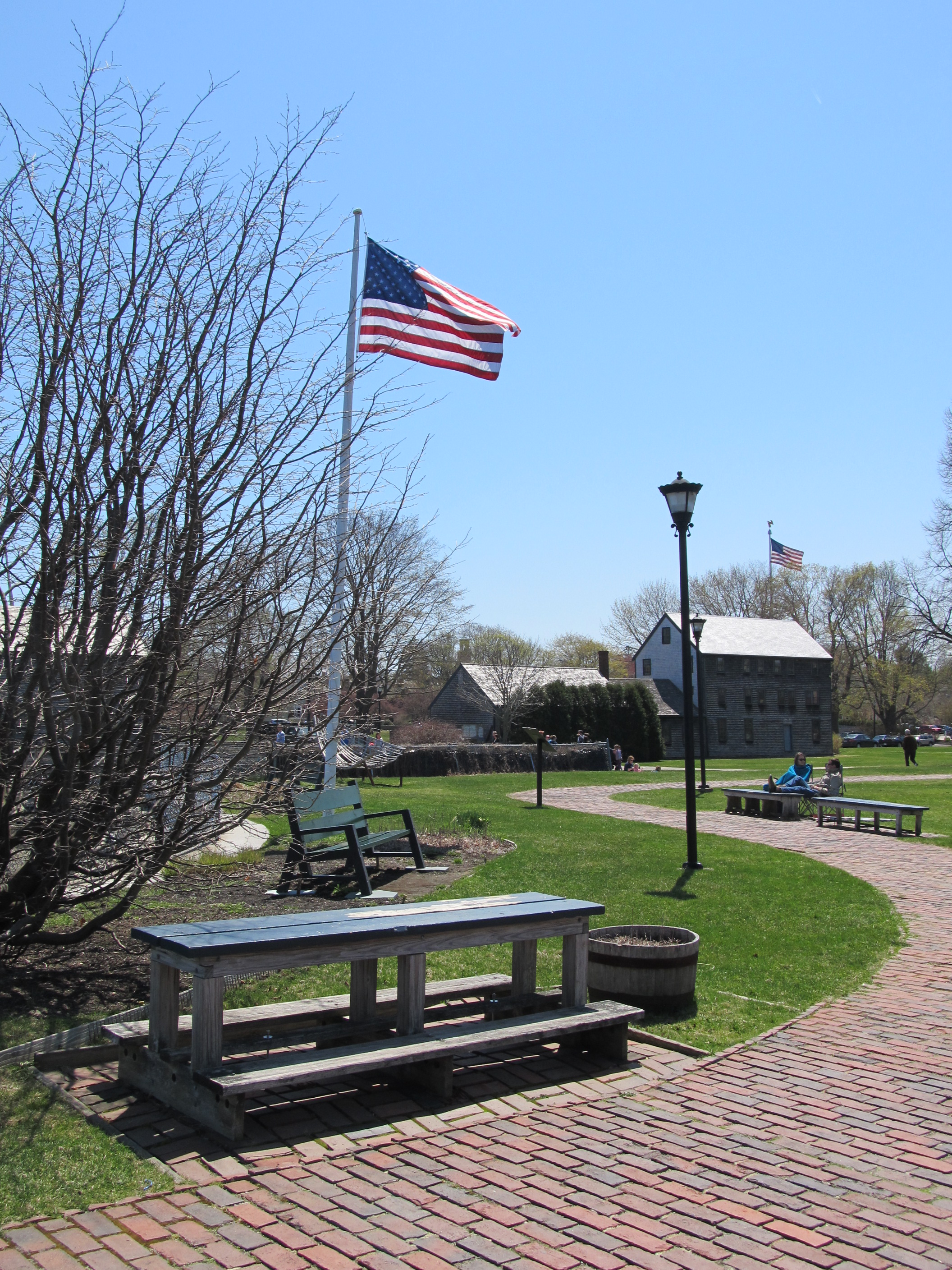 Prescott Park, taken May 2015